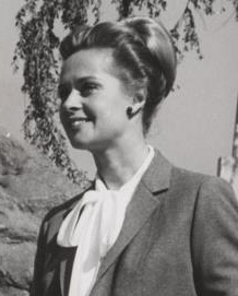 Tippi Hedren at Universal Studios